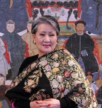 Photograph of Dr. Young Yang Chung taken in New York by Dae Yull Yoo.